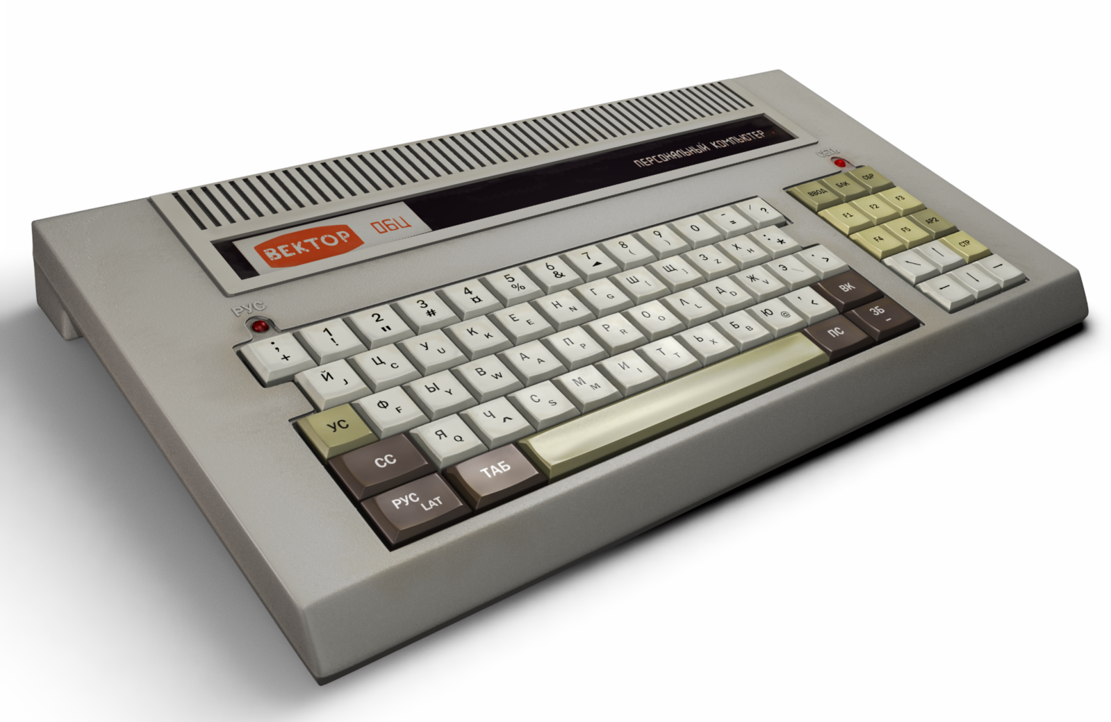 A reconstruction of Vector-06C Home Computer (Вектор-06Ц)